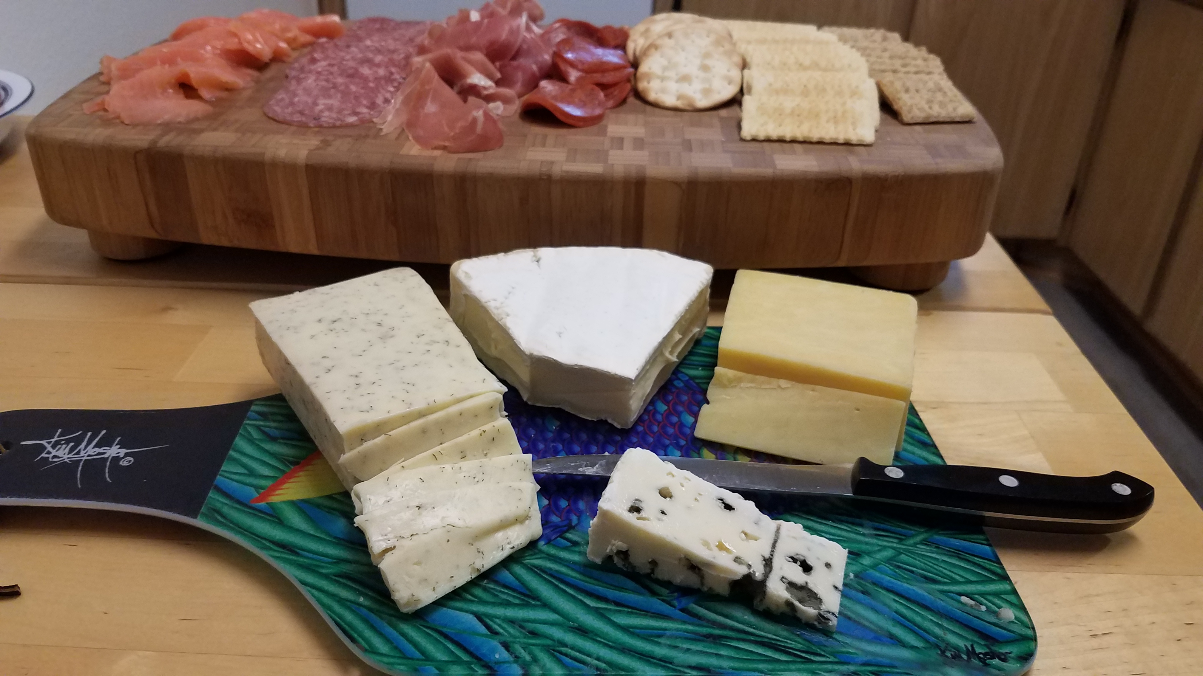 Brony made charcuterie & cheese board served in the Normal Heights neighborhood of San Diego